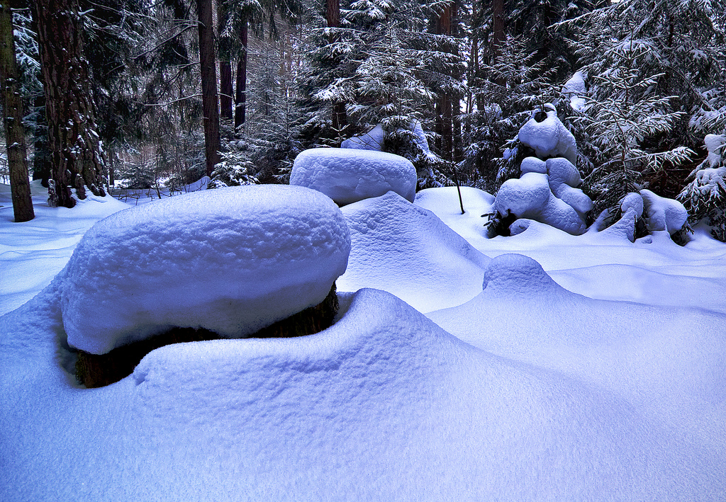 It's very difficult to believe that this is the same place where I have captured many spieces of insects and arachnids in the summer. This winter is realy cold and snowy in Lithuania. :) I take this photo with CanonEOS40D + Tokina SD 11-16 F2.8 (IF) DX lens. Please have a view of full size... Thanks :)